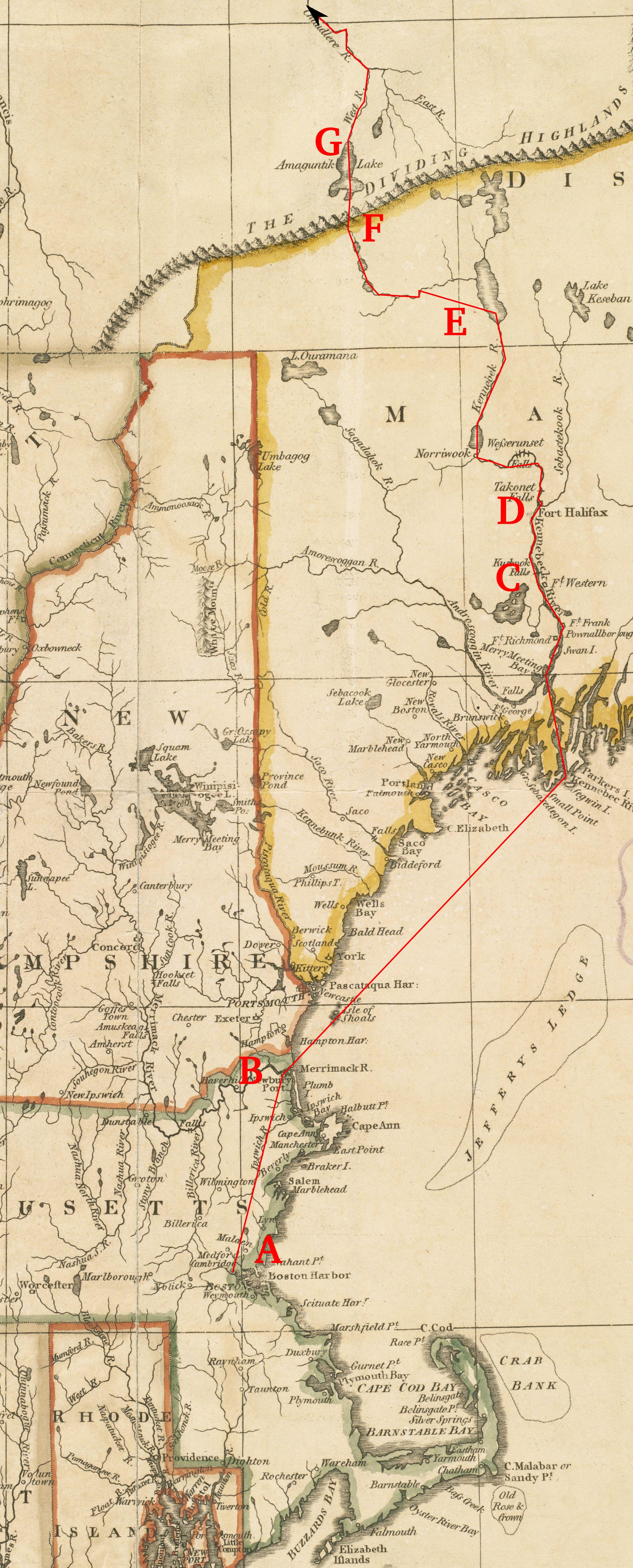 This is a detail from a 1795 map depicting the New England states. It is marked with the route of Benedict Arnold's expedition to Quebec City in September 1775. Legend: A: Cambridge, Massachusetts B: Newburyport, Massachusetts C: Fort Western D: Fort Halifax E: Lower end of the Great Carrying Place F: height of land between the Kennebec and the Chaudière River drainages G: Lake Mégantic This map does not accurately represent the area around the height of land and Lake Mégantic, so the actual route is only approximate.